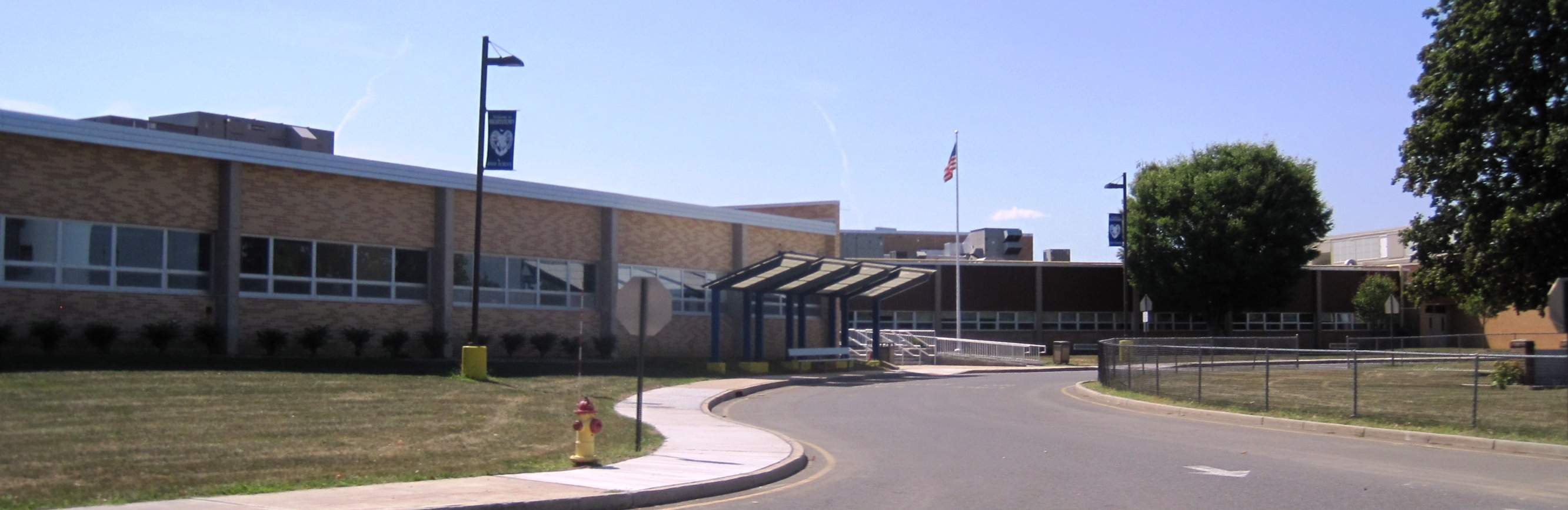 Front of the Hightstown High School in Hightstown, New Jersey. Photo taken at the intersection of Westerlea Avenue and Leshin Lane.